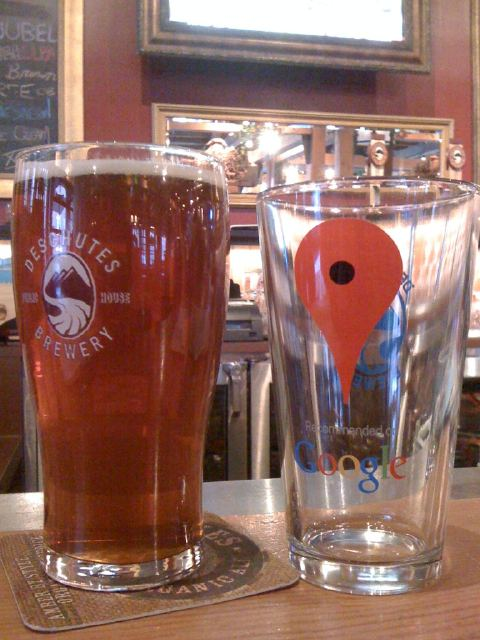 A promotional glass produced by Google as part of its 2010-2011 Hotpot release campaign in Portland, Oregon